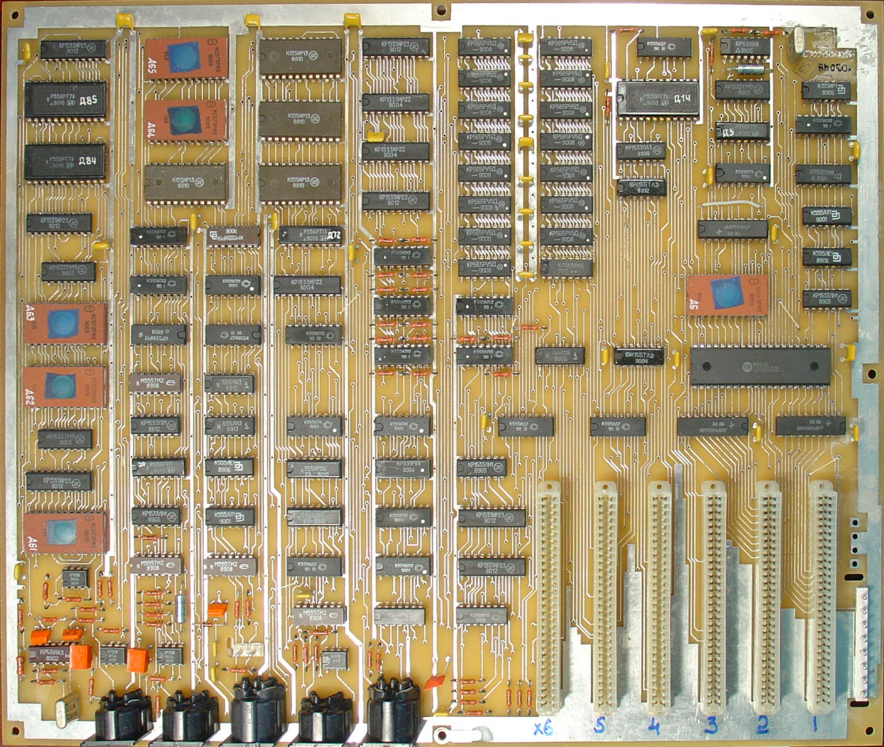 Agat-9 computer mainboard (ZEMZ)